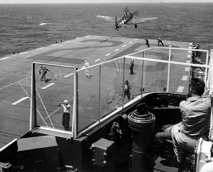 USS Monterey (CVL-26): Catapults a F6F "Hellcat" fighter during operations in the Marianas area, June 1944. Note flight deck numbers, crewmen with catapult bridles, plexiglass bridge windscreen and pelorus.